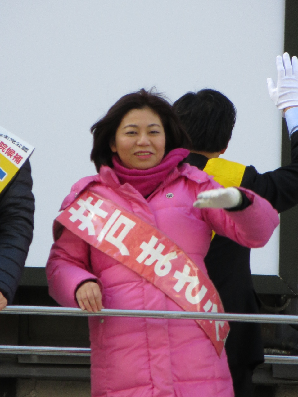 Japanese general election, 2012. Masae Ido (Rep. candidate of Democratic Party of Japan), in Motomachi, Kobe.